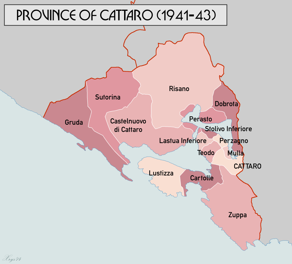 Map of the Italian Province of Cattaro (1941-43). Source data: Volkstumskarte von Jugoslawien, Wilfried Krallert (1941)